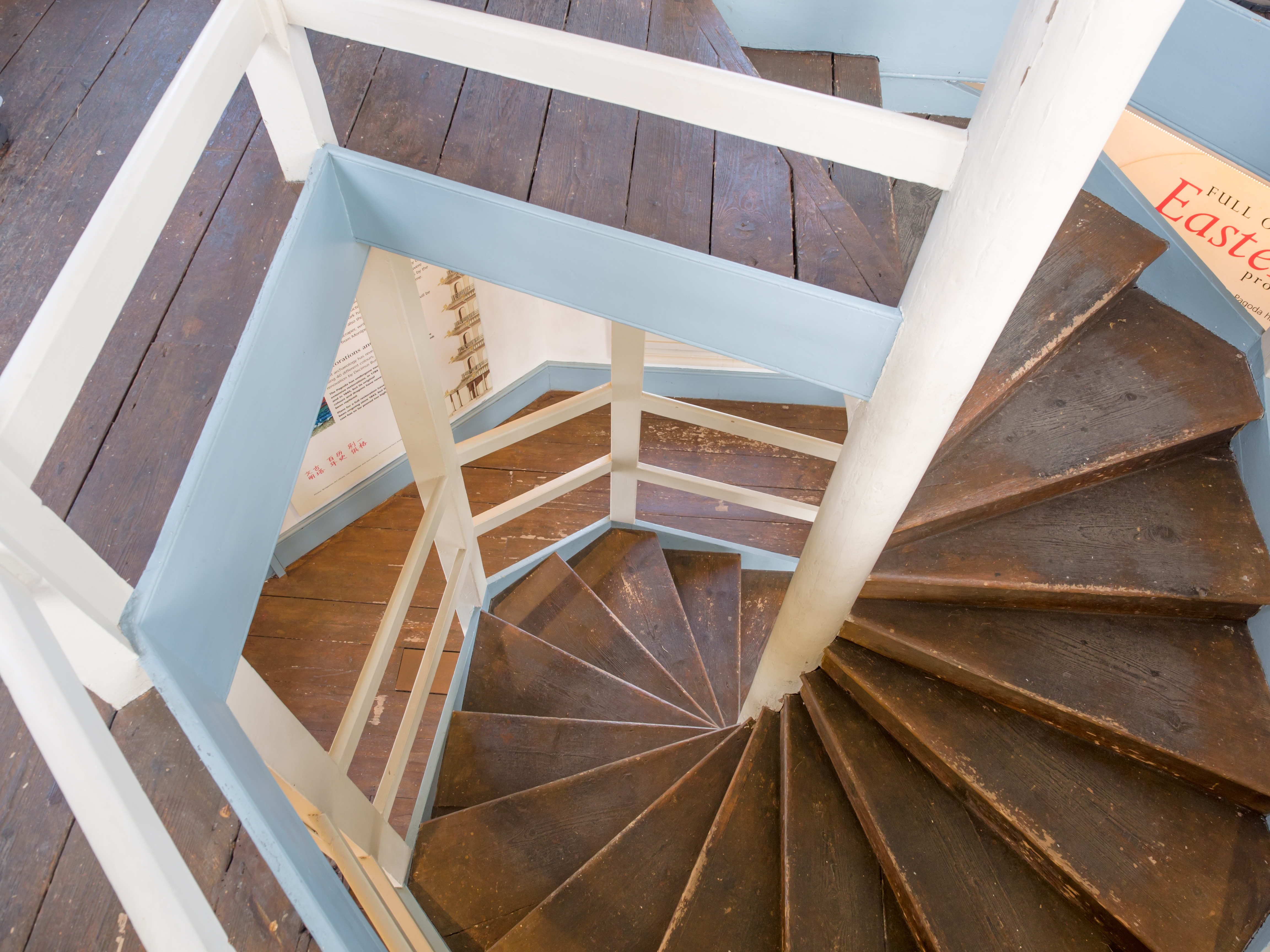 Royal Botanic Gardens, Kew